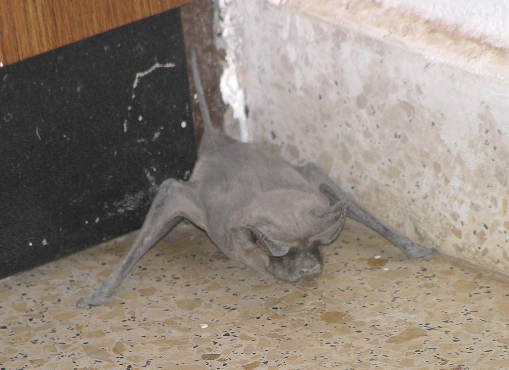 European Free-tailed Bat (Tadarida teniotis) in Beer Sheva, Israel